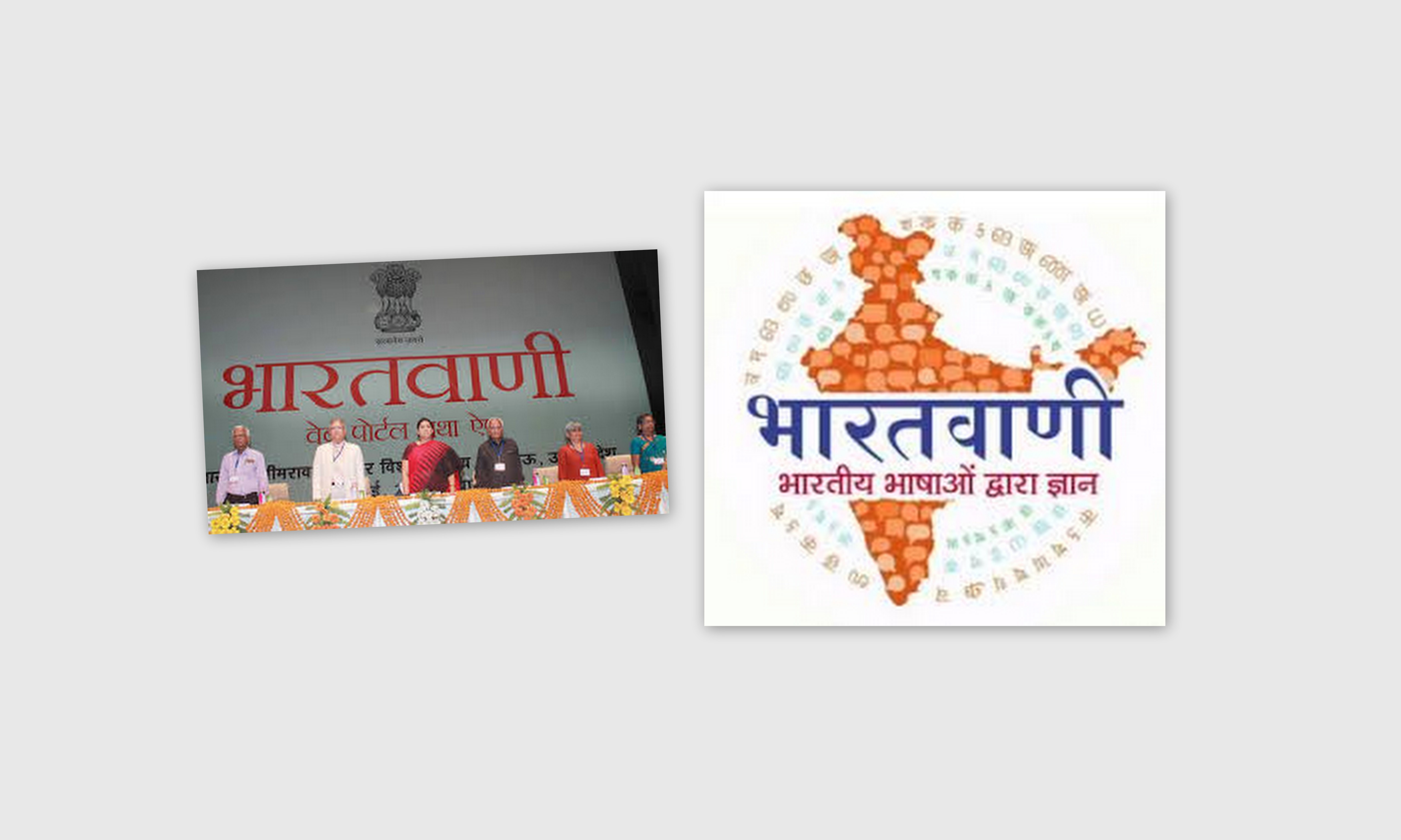 symbol of bharathvaani